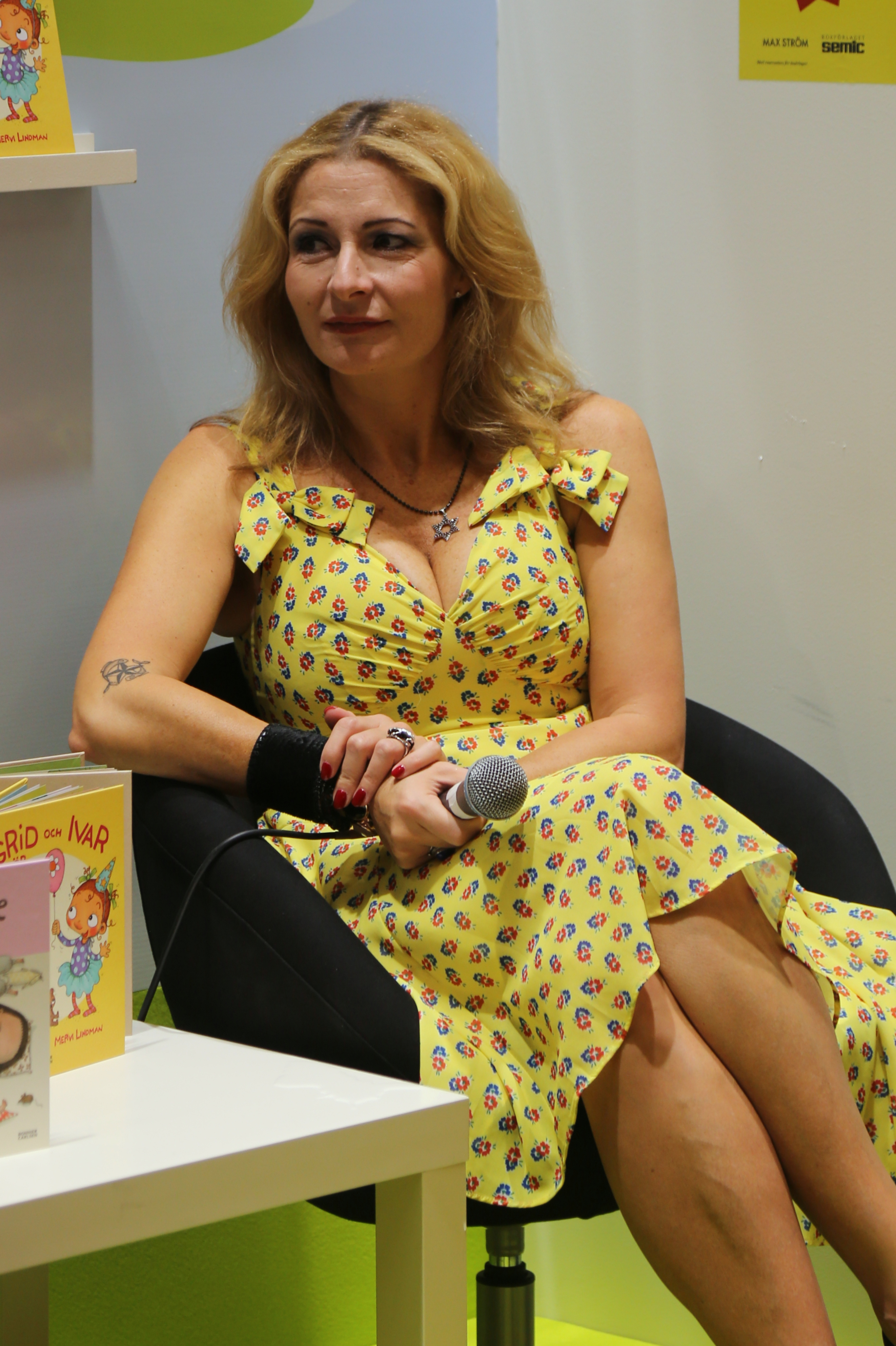 Katerina Janouch at the Gothenburg Book Fair 2014.